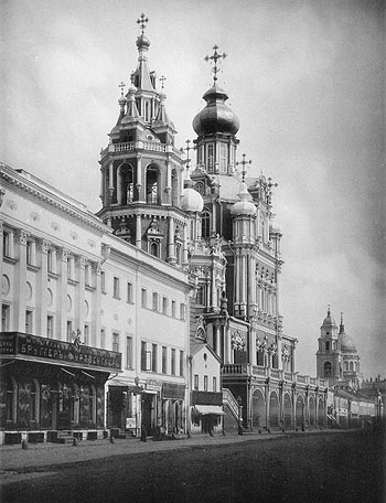 The Assumption church at the Pokrovka street, Moscow. The church was built in 1699 to a design by Peter Potapov and demolished in 1936. The photo is taken in 1882 and as such is not subject to copyright laws.